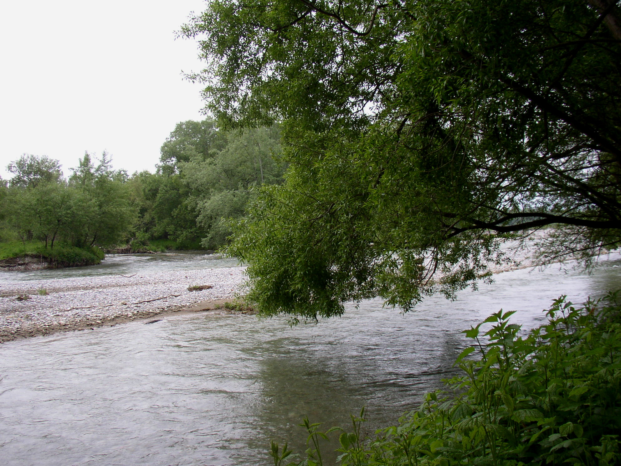 The rivers Schwarza (from the right) and Pitten (centre) merge into the river Leitha near Haderswoerth, municipality Lanzenkirchen.